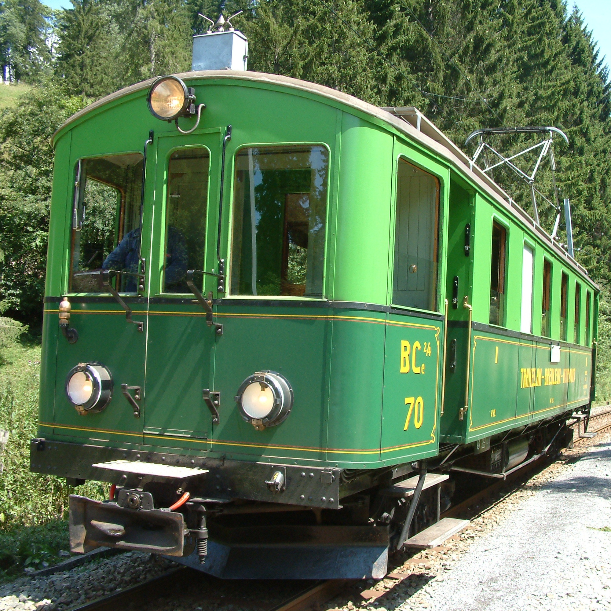 Historical BCe 2/4 (TBN) CJ motor coach near La Combe